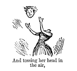 "Our Three-Volume Novel at a Glance", a cartoon by Priestman Atkinson, from the Punch Almanack for 1885 (which would have been published in late 1884). This is a jocular look at some clichéd expressions which were overused in the popular literature of the time. It contains absurd literalistic interpretations of a number of conventional metaphors, accompanied by some outrageous visual puns. In the nineteenth century, popular novels often appeared in three-volume editions when first published, in order to allow three customers of commercial "circulating libraries" to be reading parts of the book simultaneously. I've abridged the second and third "volumes" of the cartoon in this scan. For the whole original cartoon, with full versions of "volumes" II and III